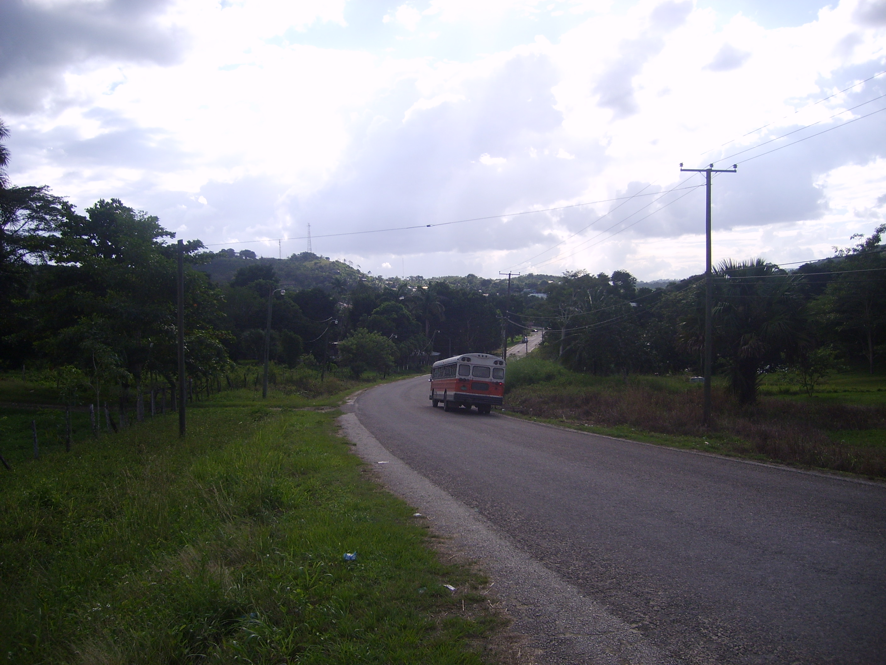 Western Highway in Belize outside San José Succotz, close to a butterfly garden. The public bus in the picture moves westward, towards the center of San José Succotz and the ferry to Xunantunich archaeological site with a destination at the border village Benque Viejo.